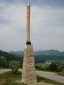 6.6m high Perun idol made and worshipped by Rodnovers in Šentjur, Slovenia.